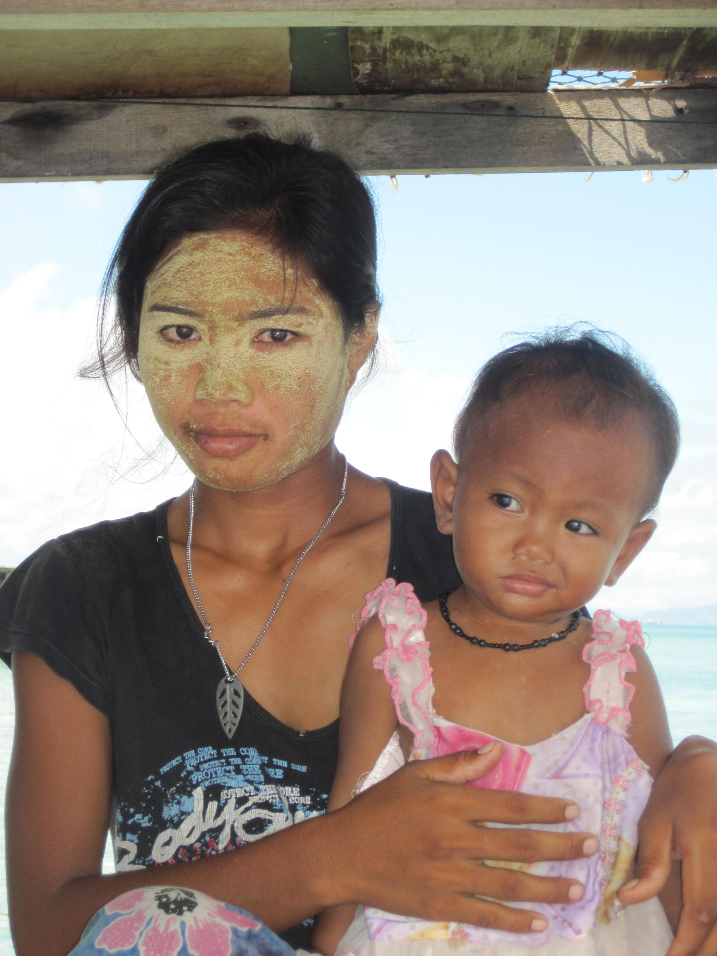 Sama woman with traditional sun protection ("borak"), Maiga Island, Semporna, Malaysia